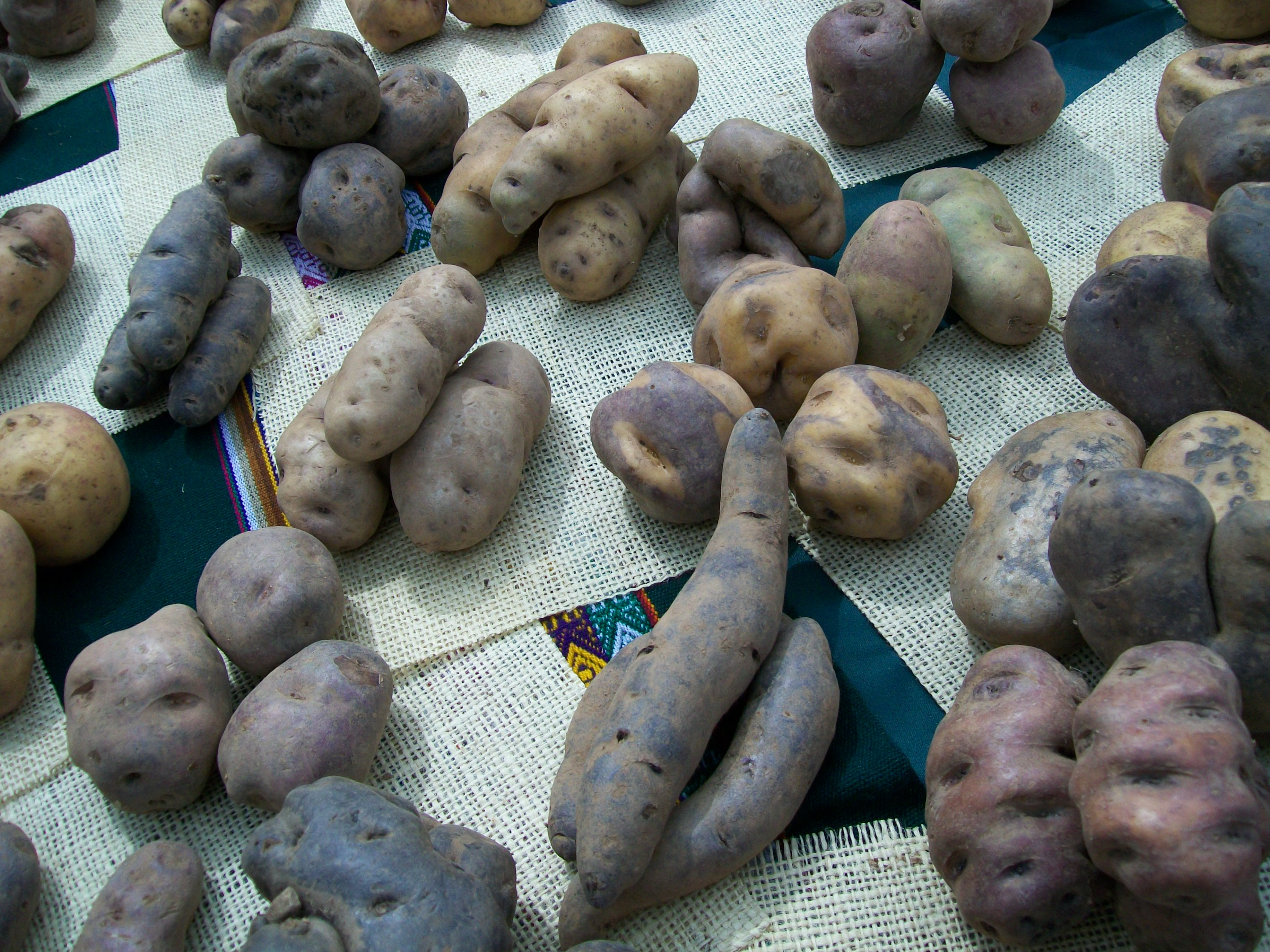 Andean Native Potatoes